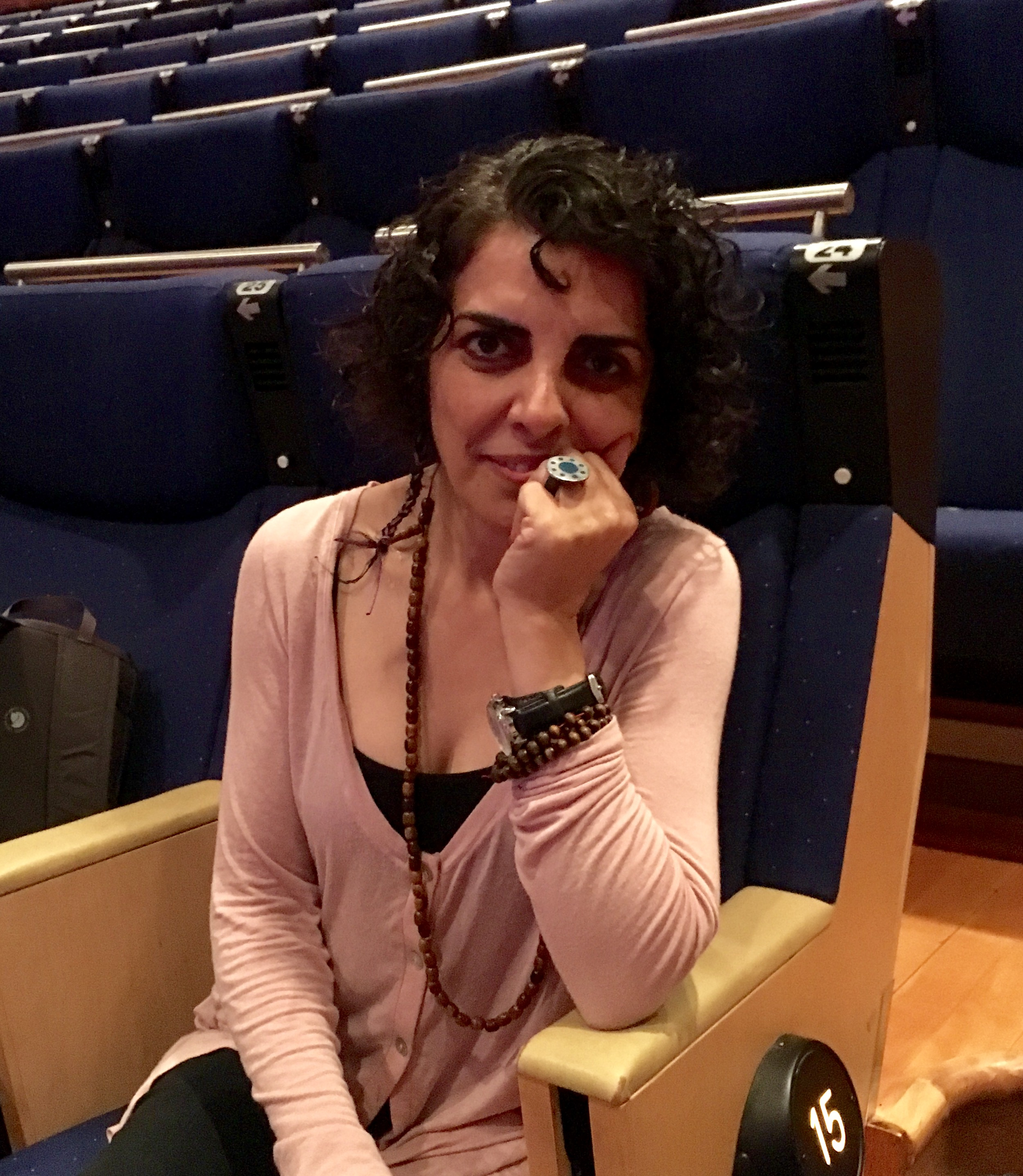 Author Parvin Ardalan after her participation at a seminar at the 2016 Book Fair in Gothenburg.